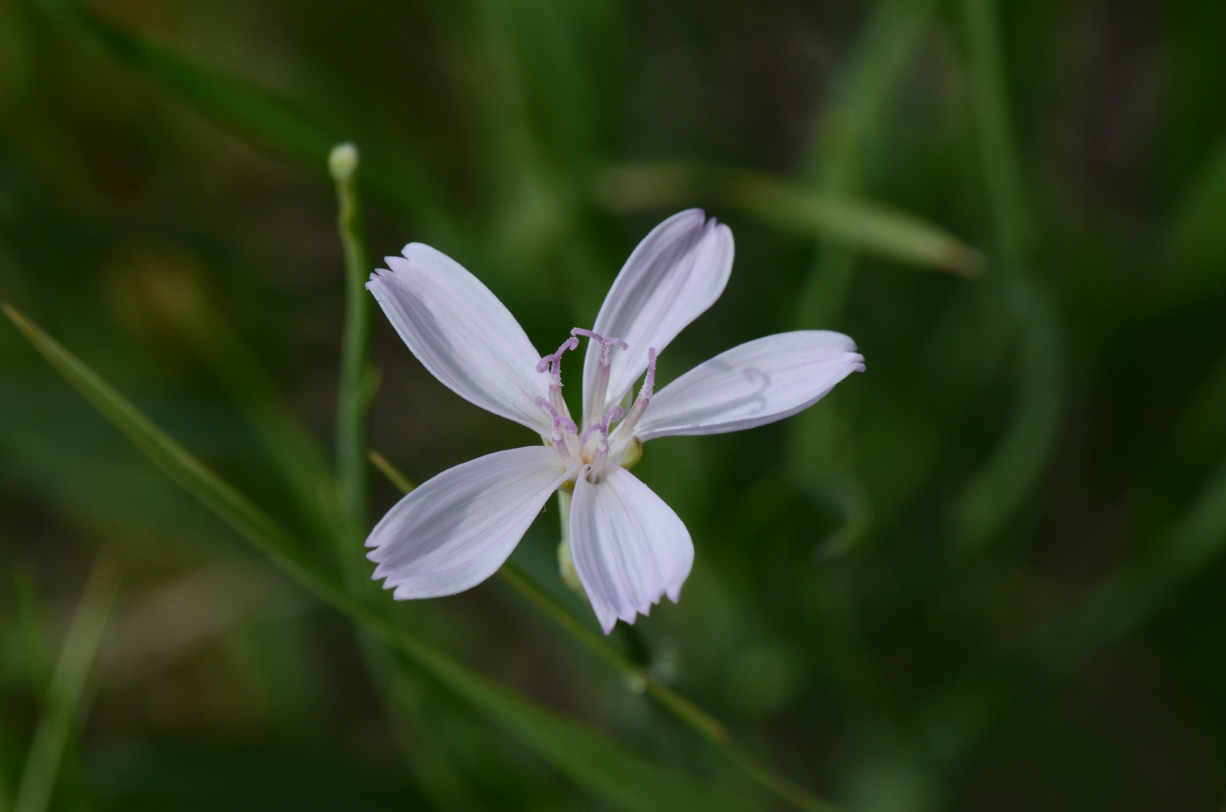 Lygodesmia juncea, from North Dakota, and published as part of the Flora of North Dakota Checklist by A. Shipunov